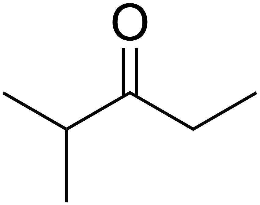 chemical structure of ethyl isopropyl ketone